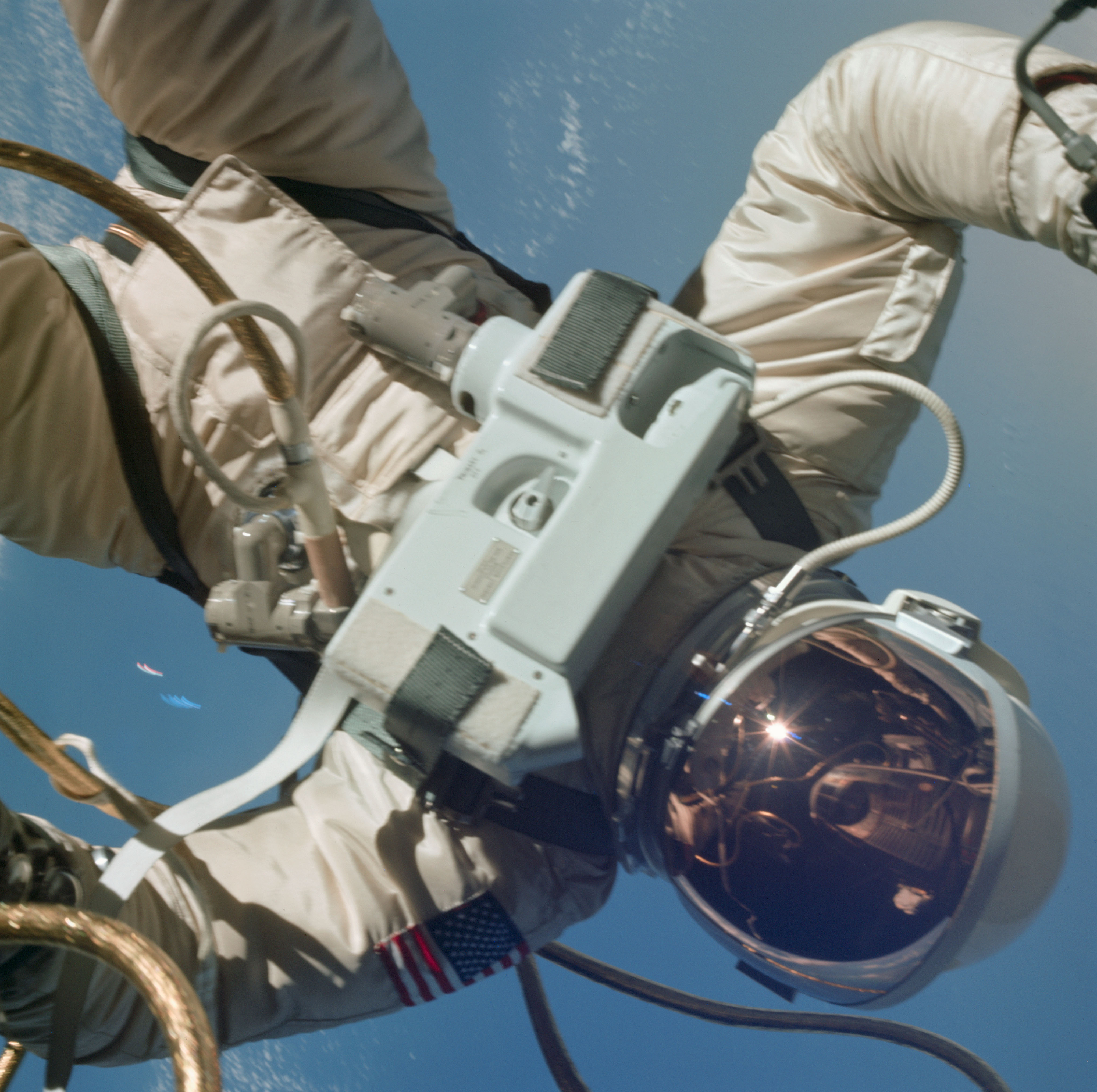 S65-30429 (3 June 1965) --- Astronaut Edward H. White II, pilot of the Gemini IV four-day Earth-orbital mission, floats in the zero gravity of space outside the Gemini IV spacecraft. White wears a specially designed spacesuit; and the visor of the helmet is gold plated to protect him against the unfiltered rays of the sun. He wears an emergency oxygen pack, also. He is secured to the spacecraft by a 25-feet umbilical line and a 23-feet tether line, both wrapped in gold tape to form one cord. In his right hand is a Hand-Held Self-Maneuvering Unit (HHSMU) with which he controls his movements in space. Astronaut James A. McDivitt, command pilot of the mission, remained inside the spacecraft. EDITOR'S NOTE: Astronaut White died in the Apollo/Saturn 204 fire at Cape Kennedy on Jan. 27, 1967.